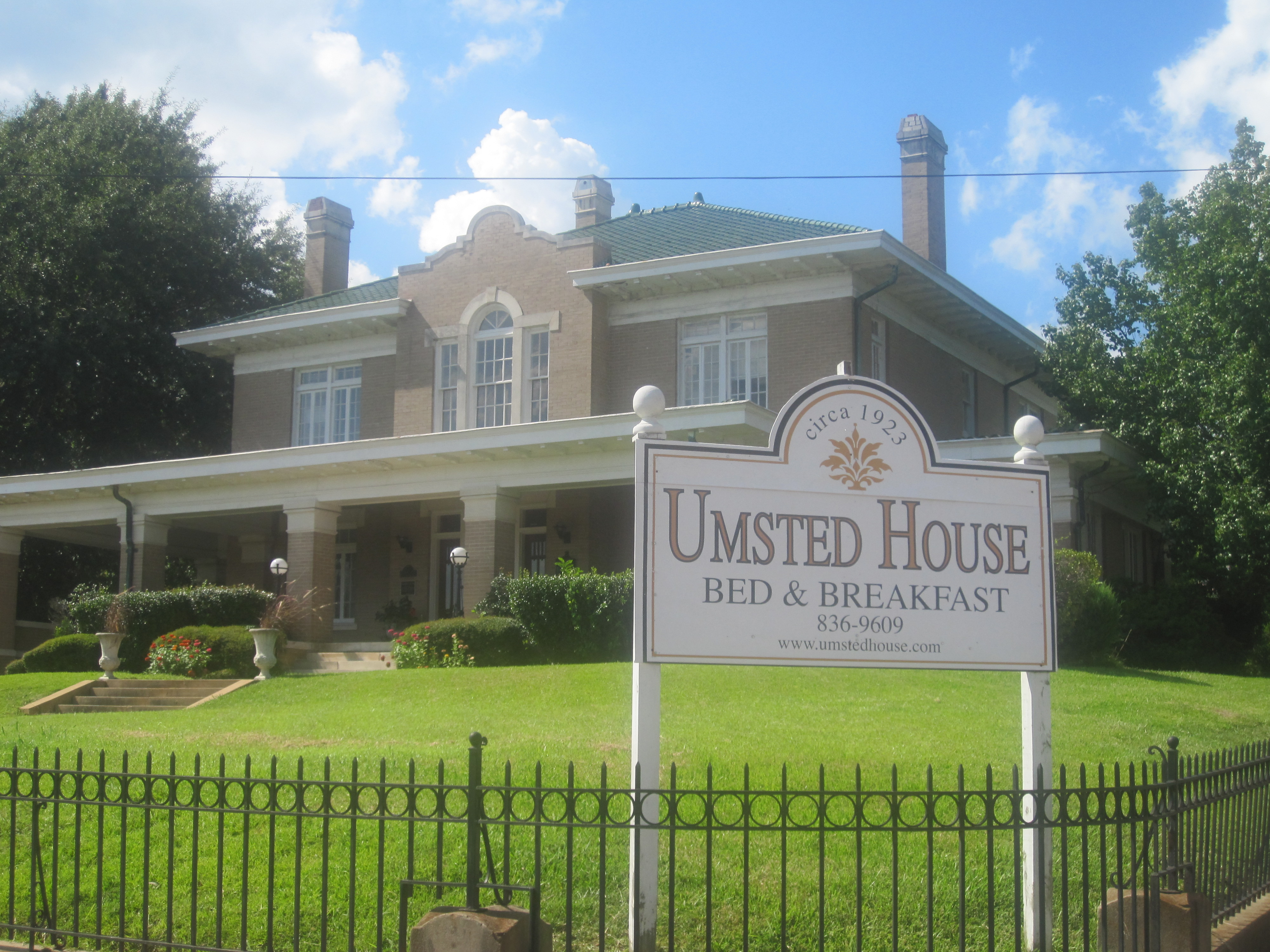 Umsted House Bed and Breakfast in Camden, AR